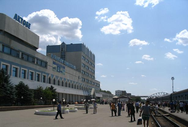 Aktobe train station